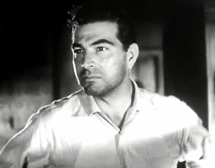 Cropped screenshot of Stephen McNally from the trailer for the film Split Second.